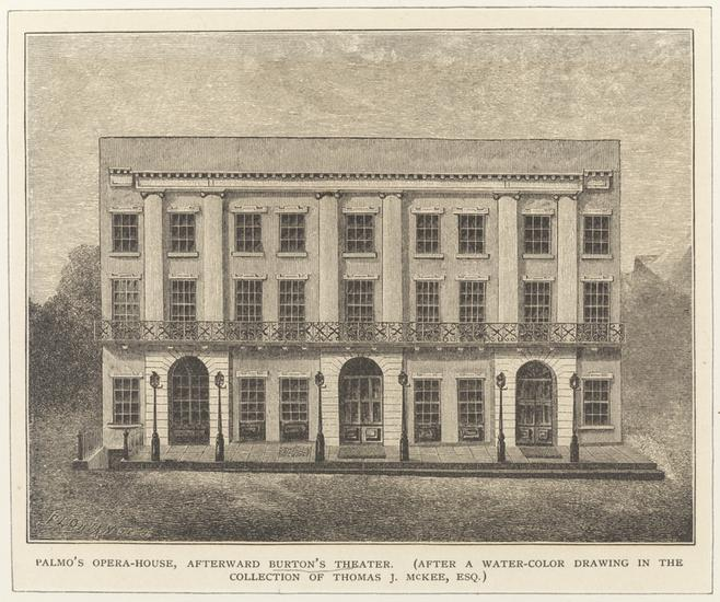 Rendering of Palmo's Opera House by Flomian from 1882 which is based on a water color drawing by Thomas J. McKee from 1850.